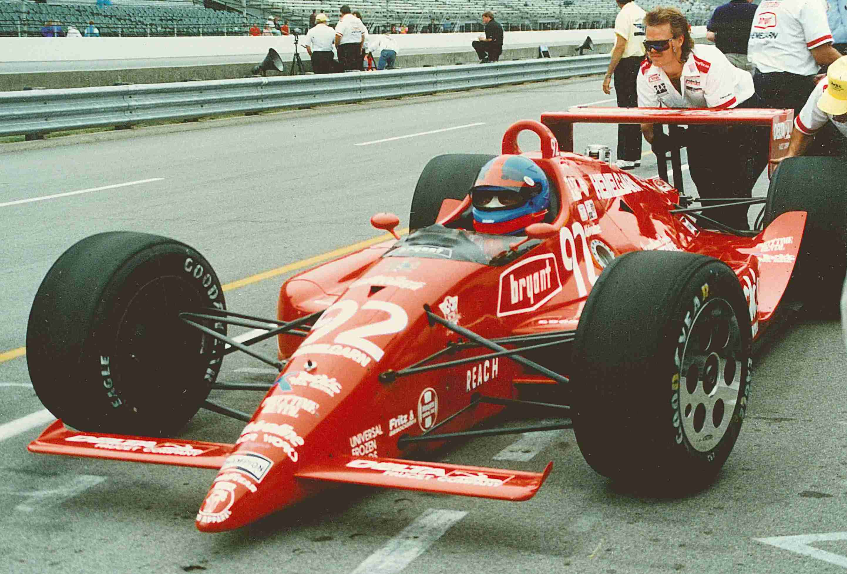 Gordon Johncock at the 1991 Indianapolis 500